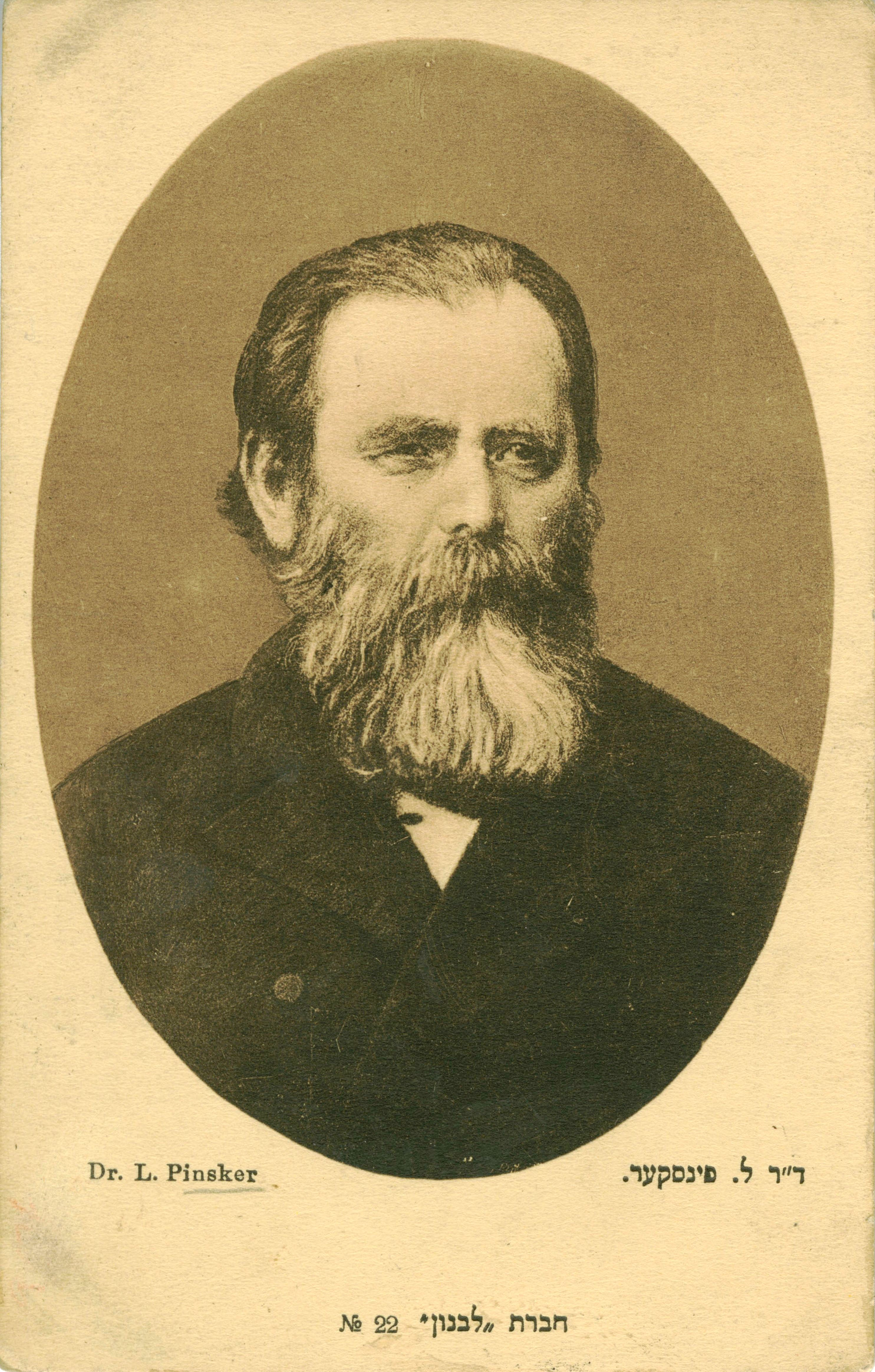 Leon Pinsker, Zionist pioneer